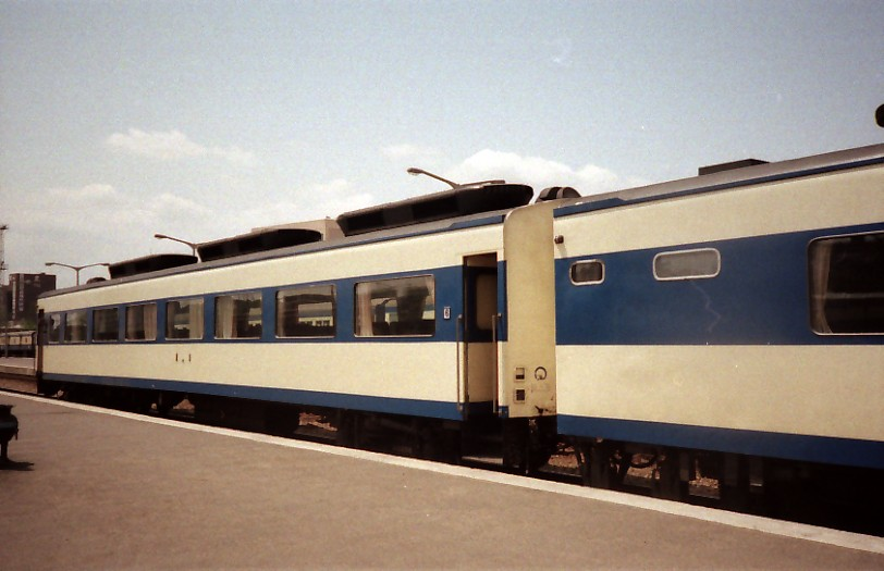 The first batch of Saemaeul Express locomotive hauled coach, Korean National Railroad.